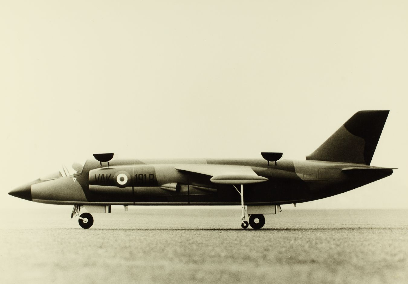 VFW-Fokker, VAK 191B